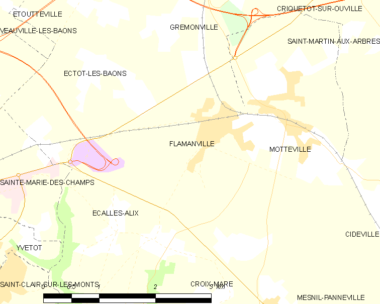 Map of French municipality Flamanville